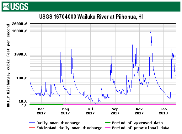 Water discharge through the USGS Piihonua Station on the Wailuku River, Hilo, HI.